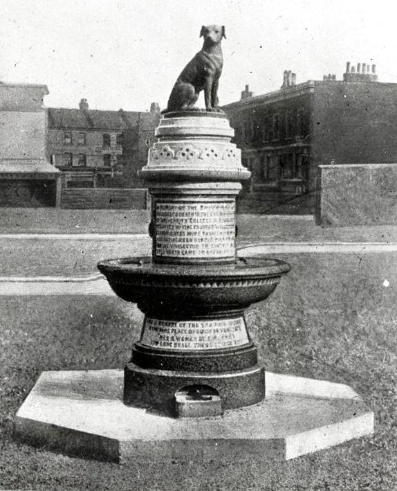 Statue created by Joseph Whitehead, erected in 1906 in Battersea, London, in memory of the Brown Dog. The statue stood in Battersea from 1906 until 1910.